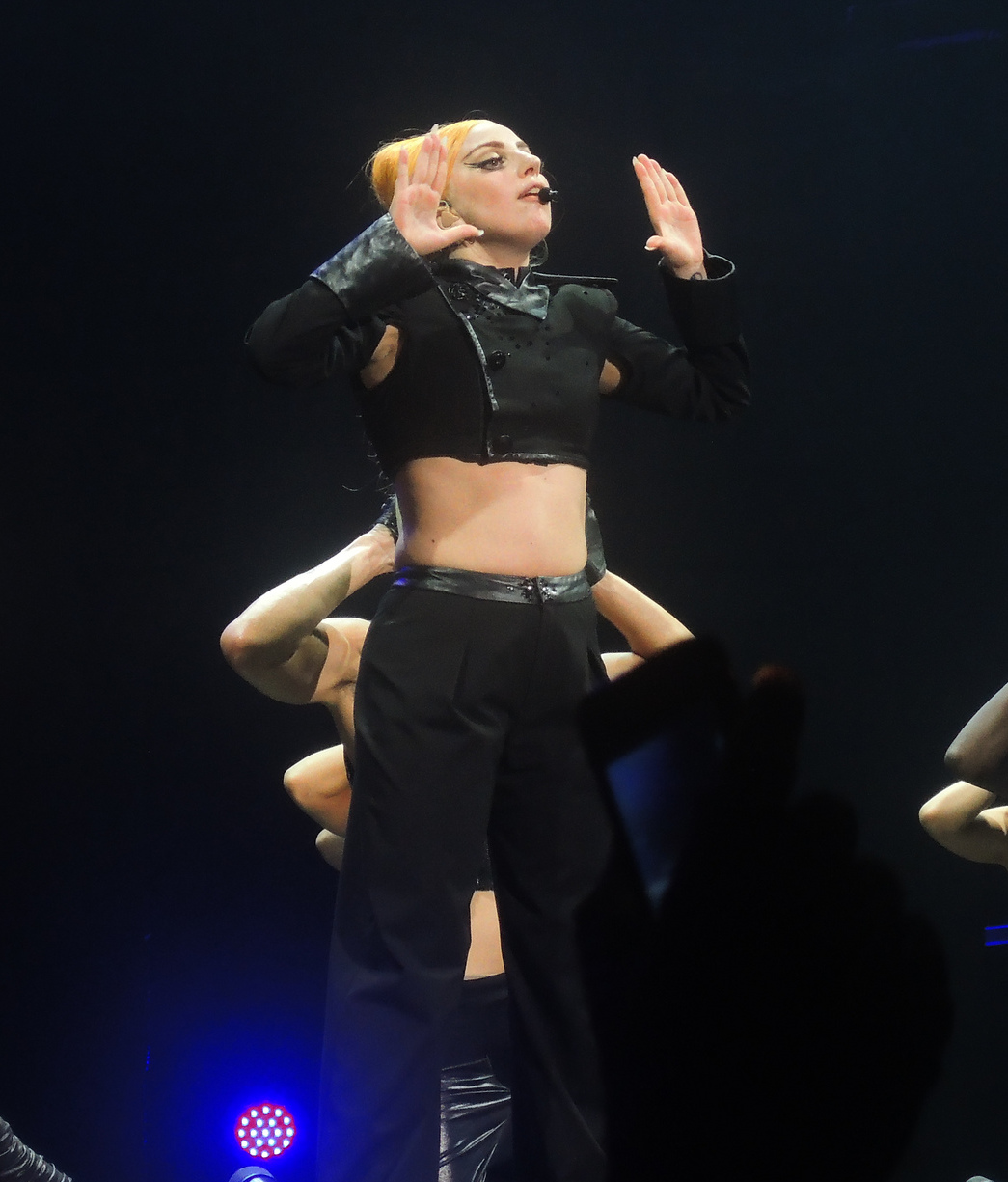 Lady Gaga performing "Scheiße" on The Born This Way Ball in Vienna, Austria.